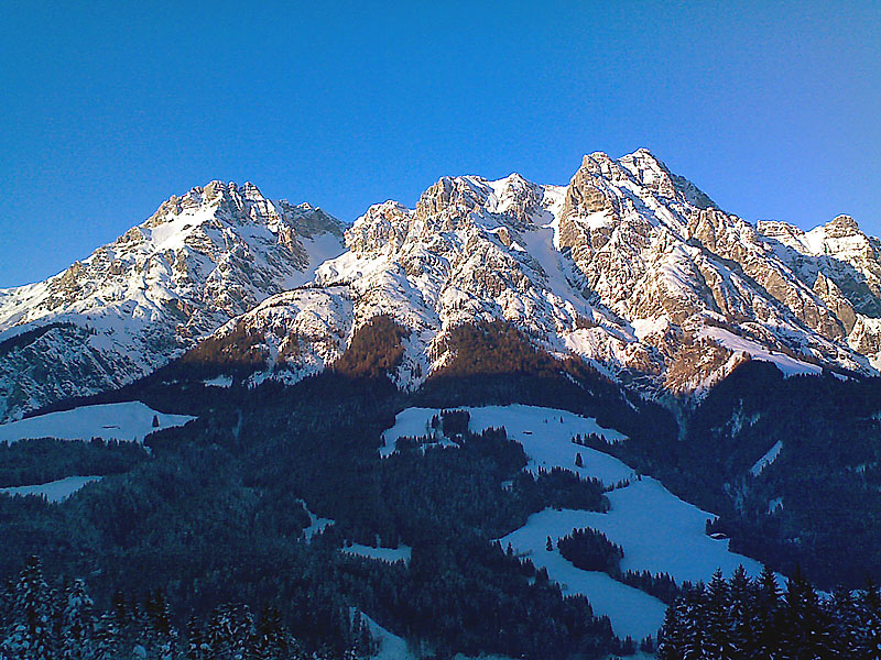 View of the Leoganger Steinberge mountain range in the Austrian Alps